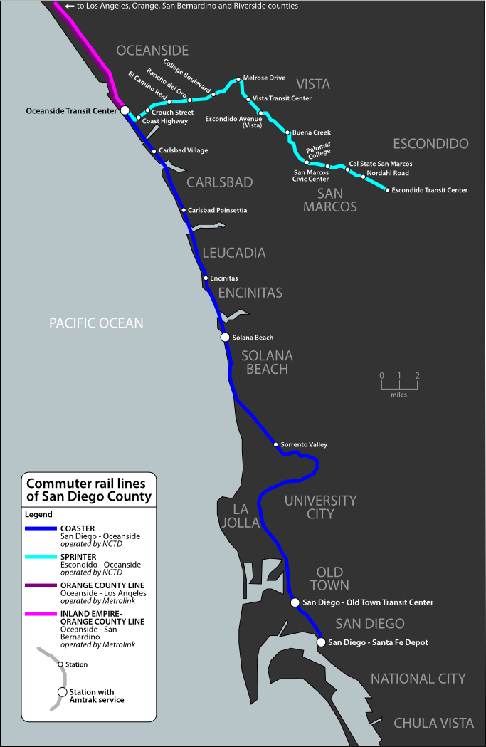 Map of commuter rail lines in San Diego County, California. Includes NCTD COASTER, NCTD SPRINTER, Metrolink Orange County Line and Metrolink Inland Empire-Orange County Line.